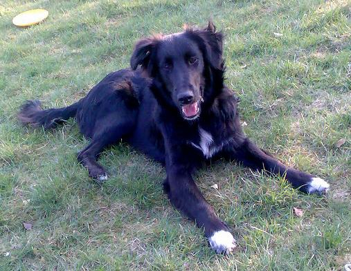 A dog of breed gollie - a crossing of Golden Retriever and Collie